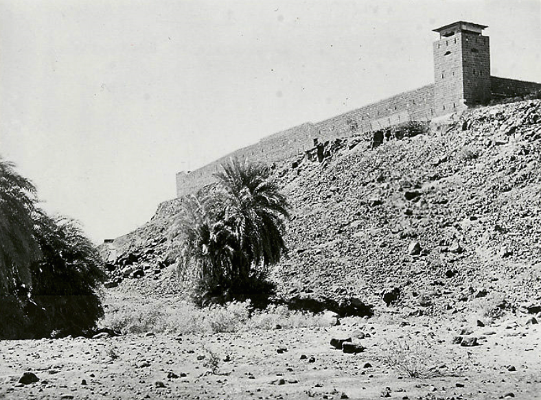 The fort of Dikkil in the Gobad region of French Somaliland (Djibouti). The fort was built c. 1928-1930. Photograph from the 1930s.